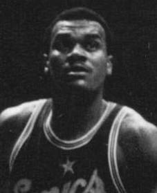 Professional basketball players Tom Meschery (left), Bob Rule (center) and Wilt Chamberlain (right)